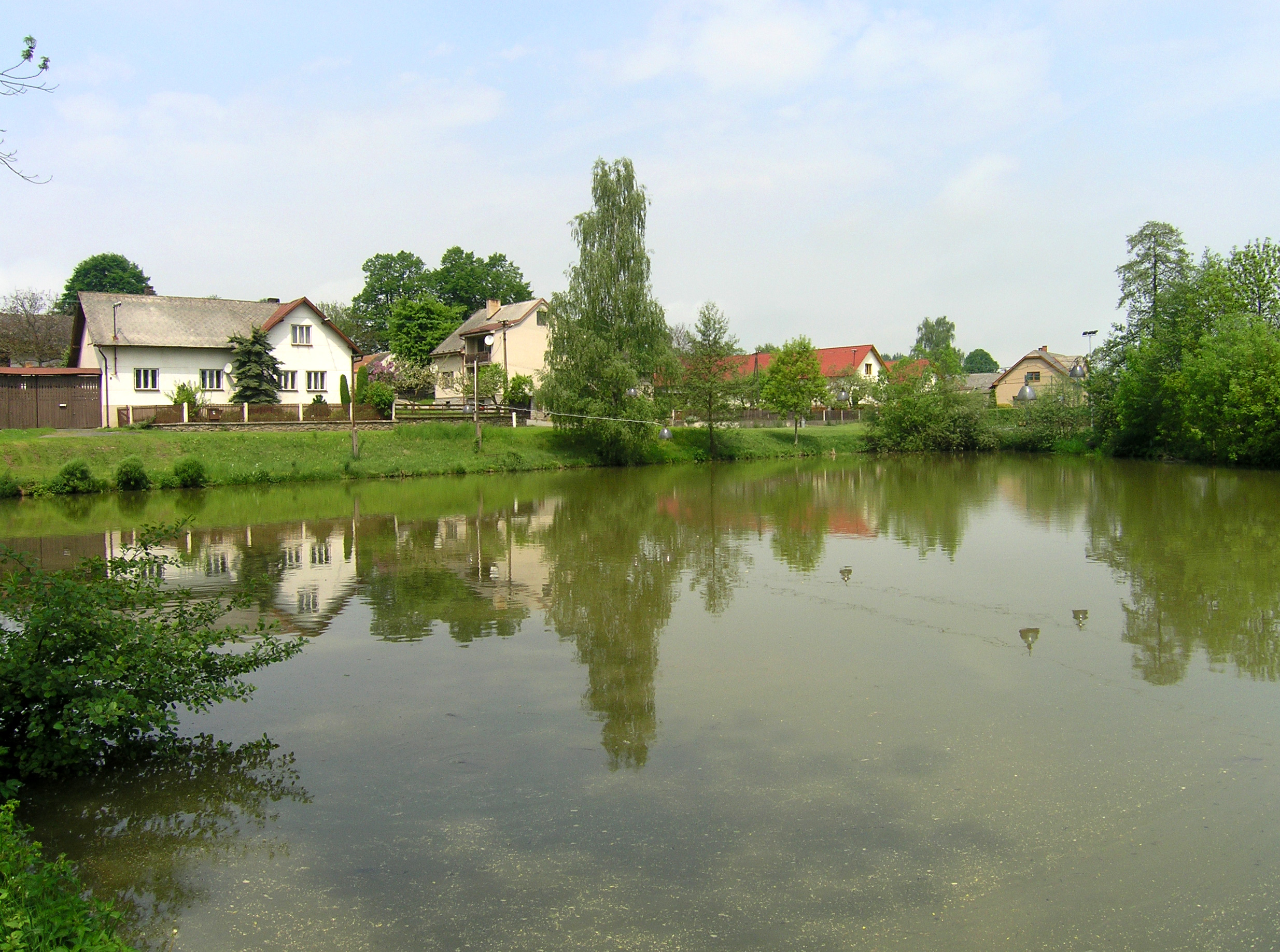 Upper pond in Vepříkov village, Czech Republic